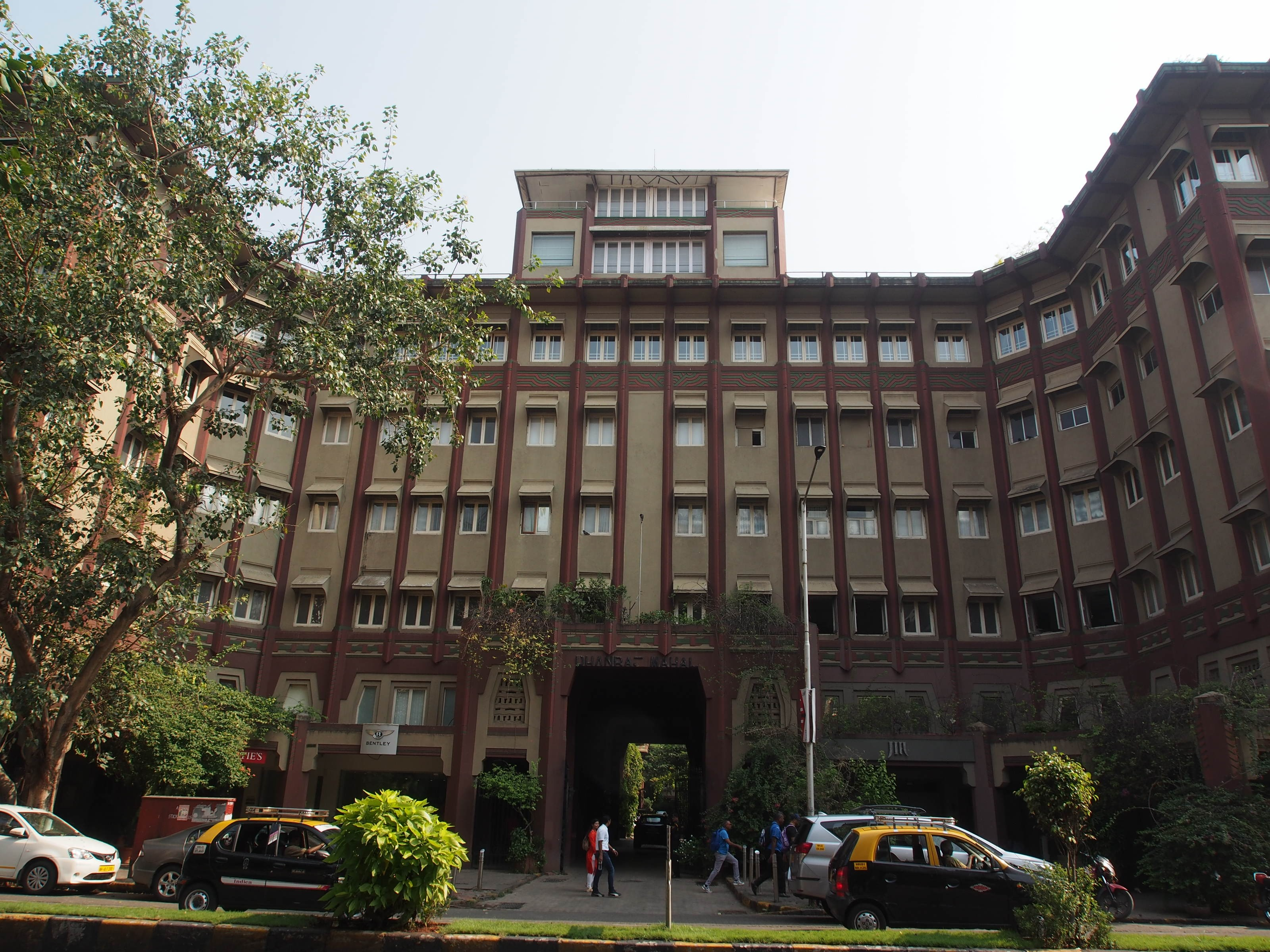 Facade of Dhanraj Mahal, Mumbai